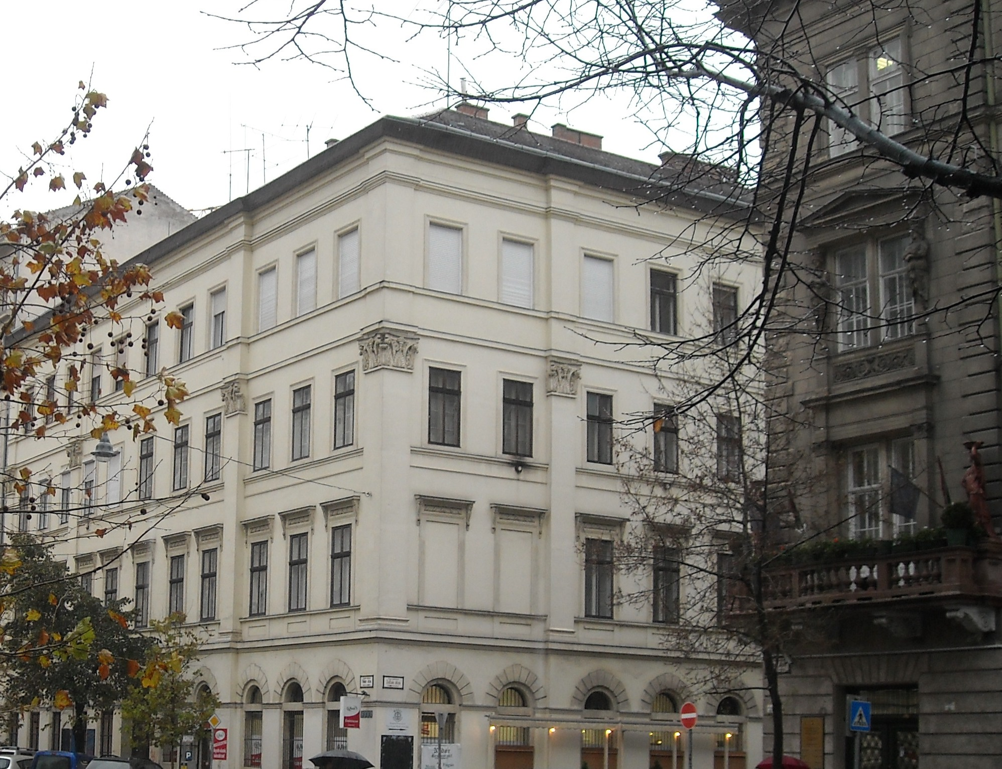 Nádor utca 30, Budapest This is a photo of a monument in Hungary. Identifier: 568